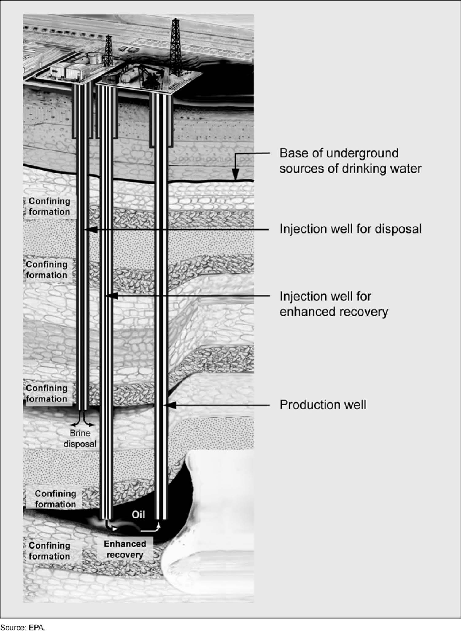 This image is excerpted from a US GAO report: Energy-Water Nexus: Information on the Quantity, Quality, and Management of Water Produced during Oil and Gas Production